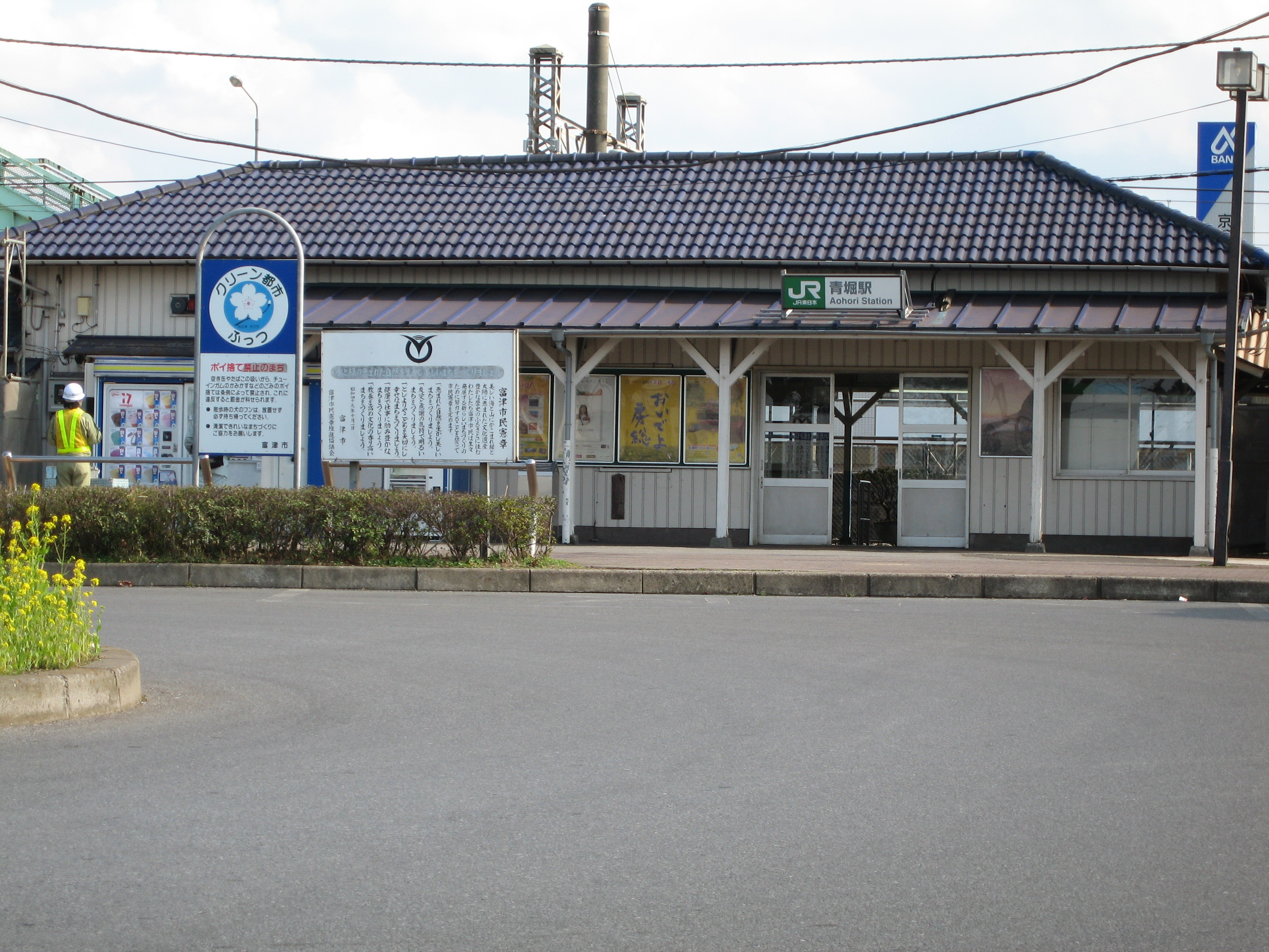 Aohori Station on Uchibo Line, in Chiba, Japan